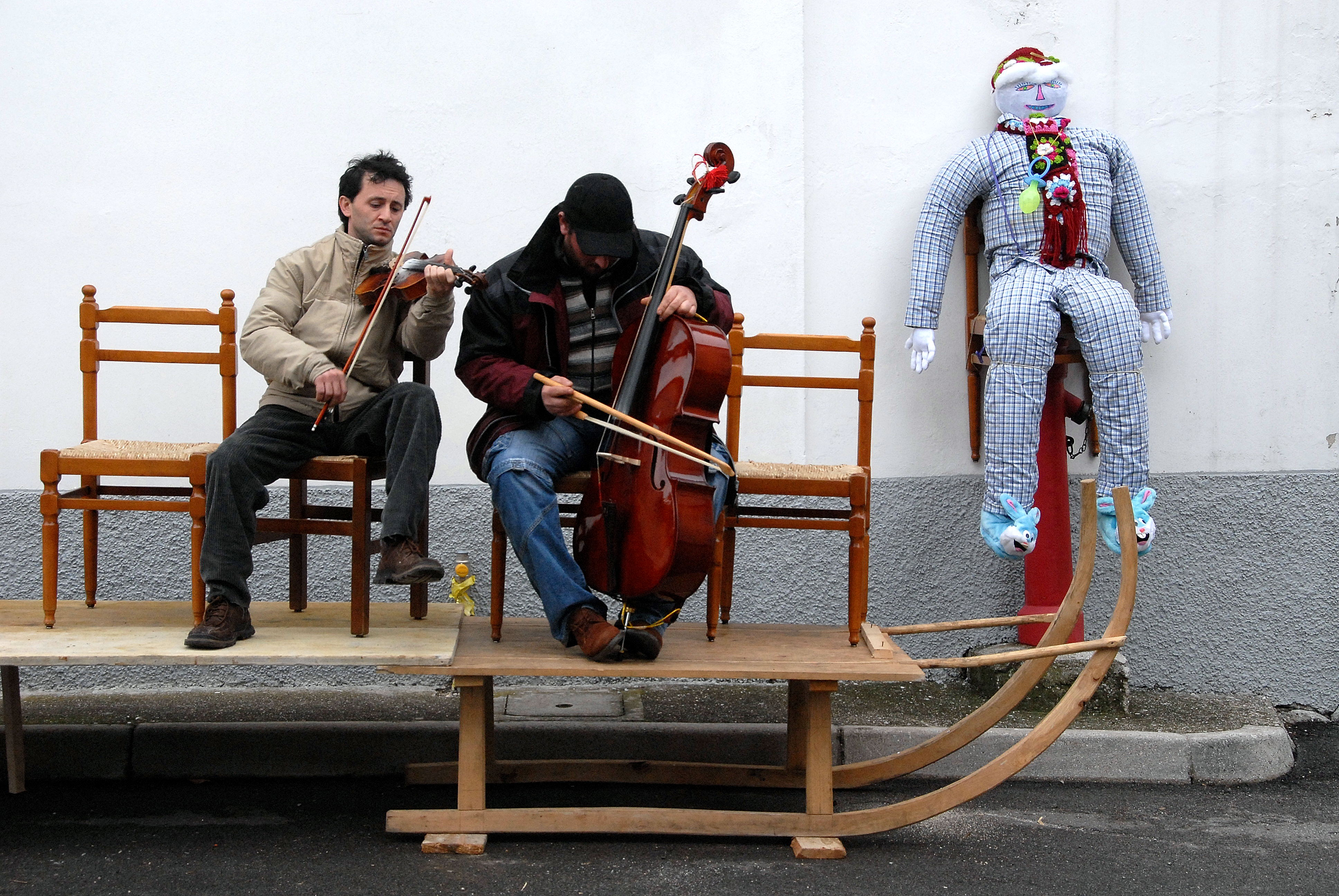 Performing musicians at the carnival of San Giorgio in the community Resia, Friuli-Venezia Giulia, Italy